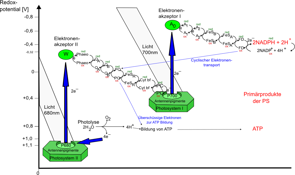 CLichtreaktion im Detail - sorry, seems that my svg is only black in wikipedia. So I uploaded also the png